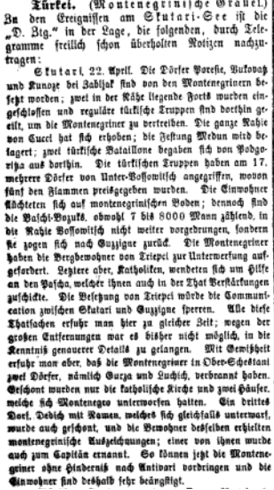 Newspiece of attack against Trieshi and Koja by Kuci and other Montenegrin tribes, May 14 1862 in the Austro-Hungarian newspaper Tagespost Graz